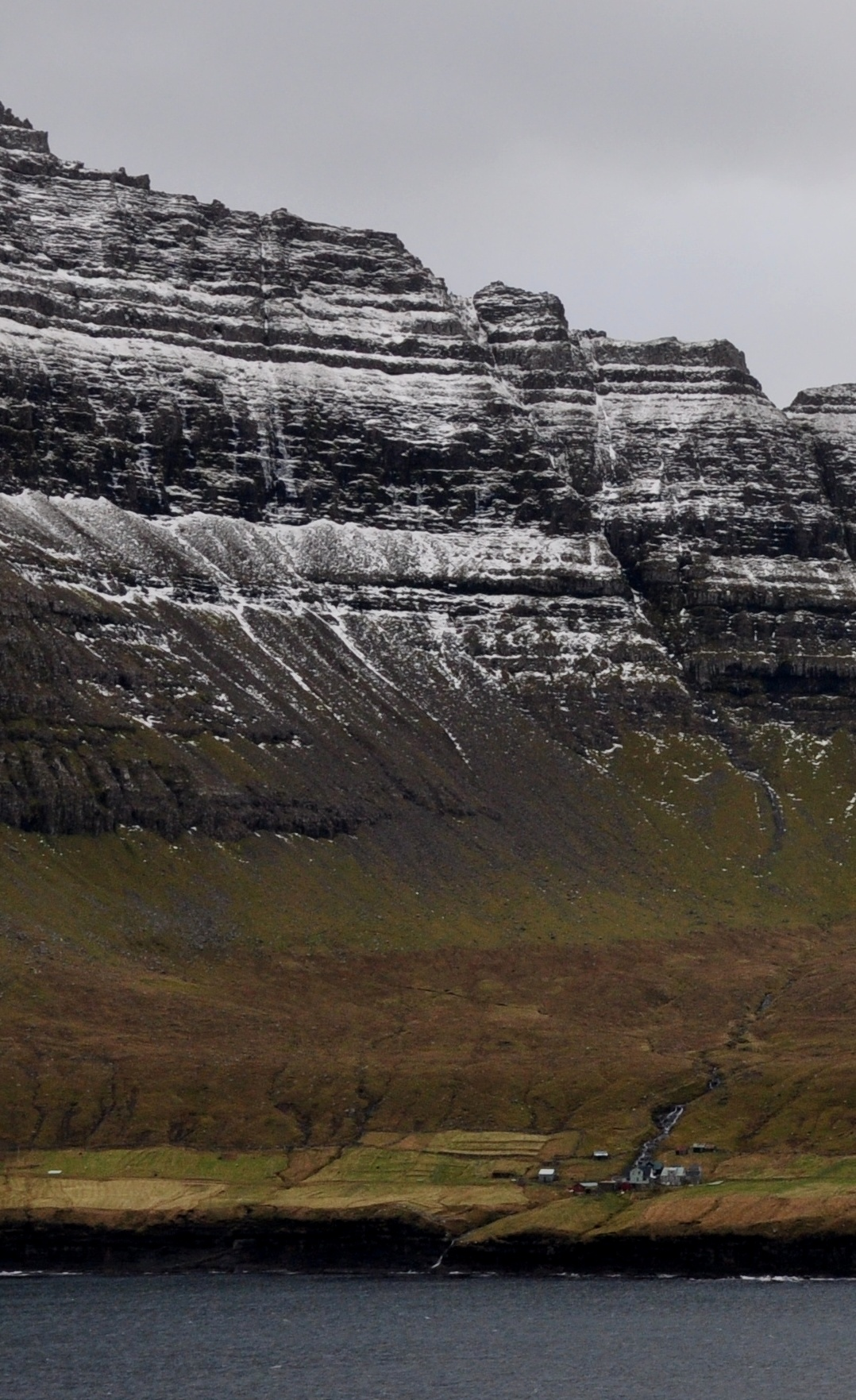 The hamlet of Múli (on Borðoy, Faroe Islands) seen from Viðoy.